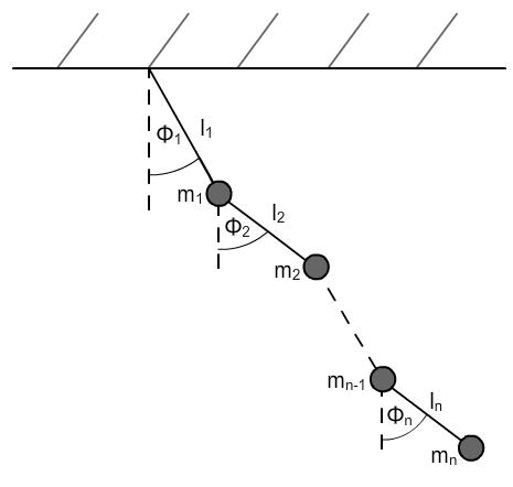 Multipendel